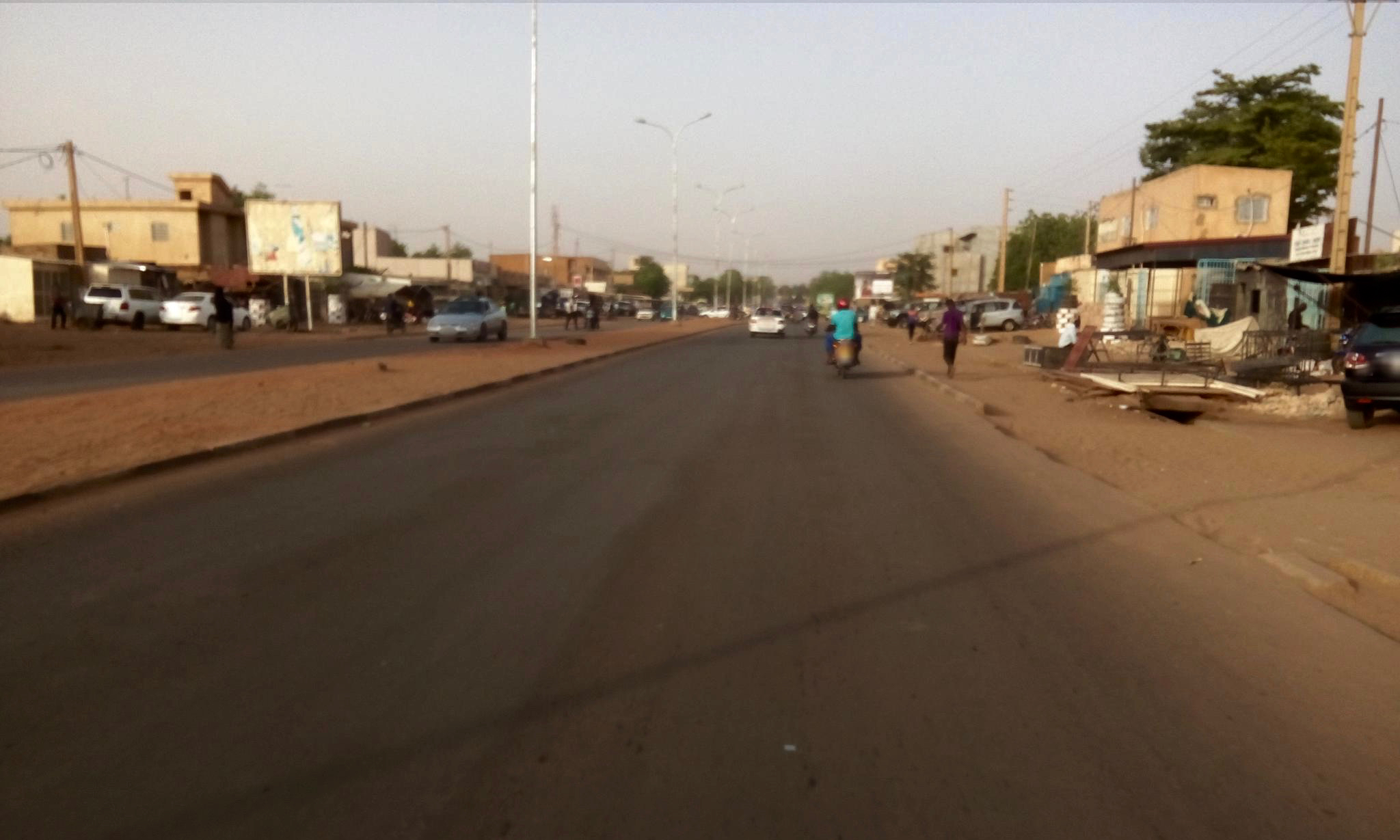 Boulevard Mali Béro as the boundary road between the quarters of Tourakou (left) and Boukoki III (right), Niamey.